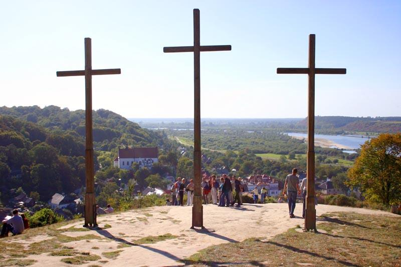 Kazimierz Dolny in Poland